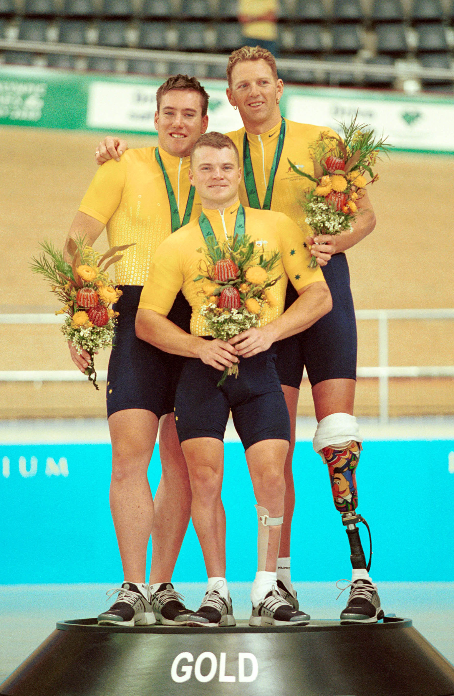 Australian track cyclists Matthew Gray, Greg Ball and Paul Lake on the gold podium with their medals won in the Mixed Olympic Sprint at the 2000 Sydney Paralympic Games